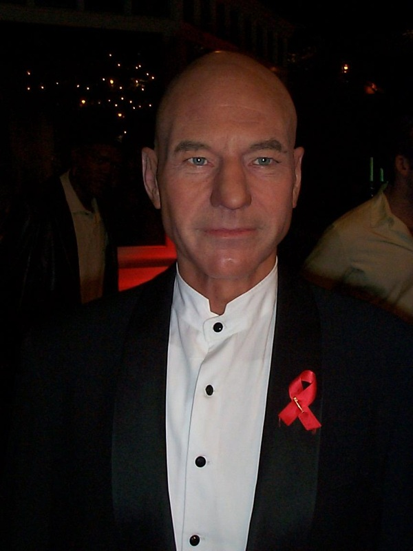 Patrick Stewart wax figure at Madame Tussauds London.